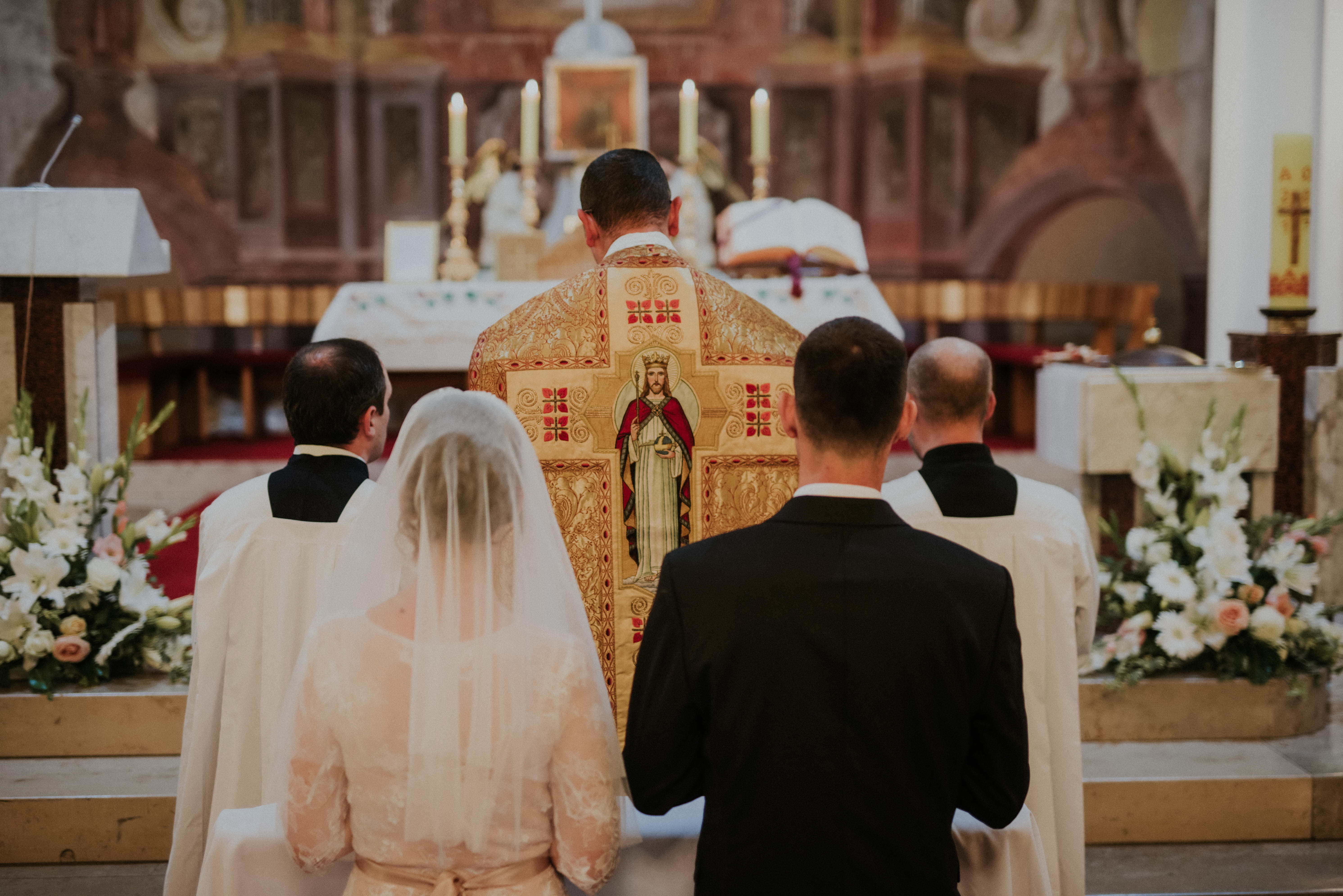 Nuptial Mass according to the traditional roman rite